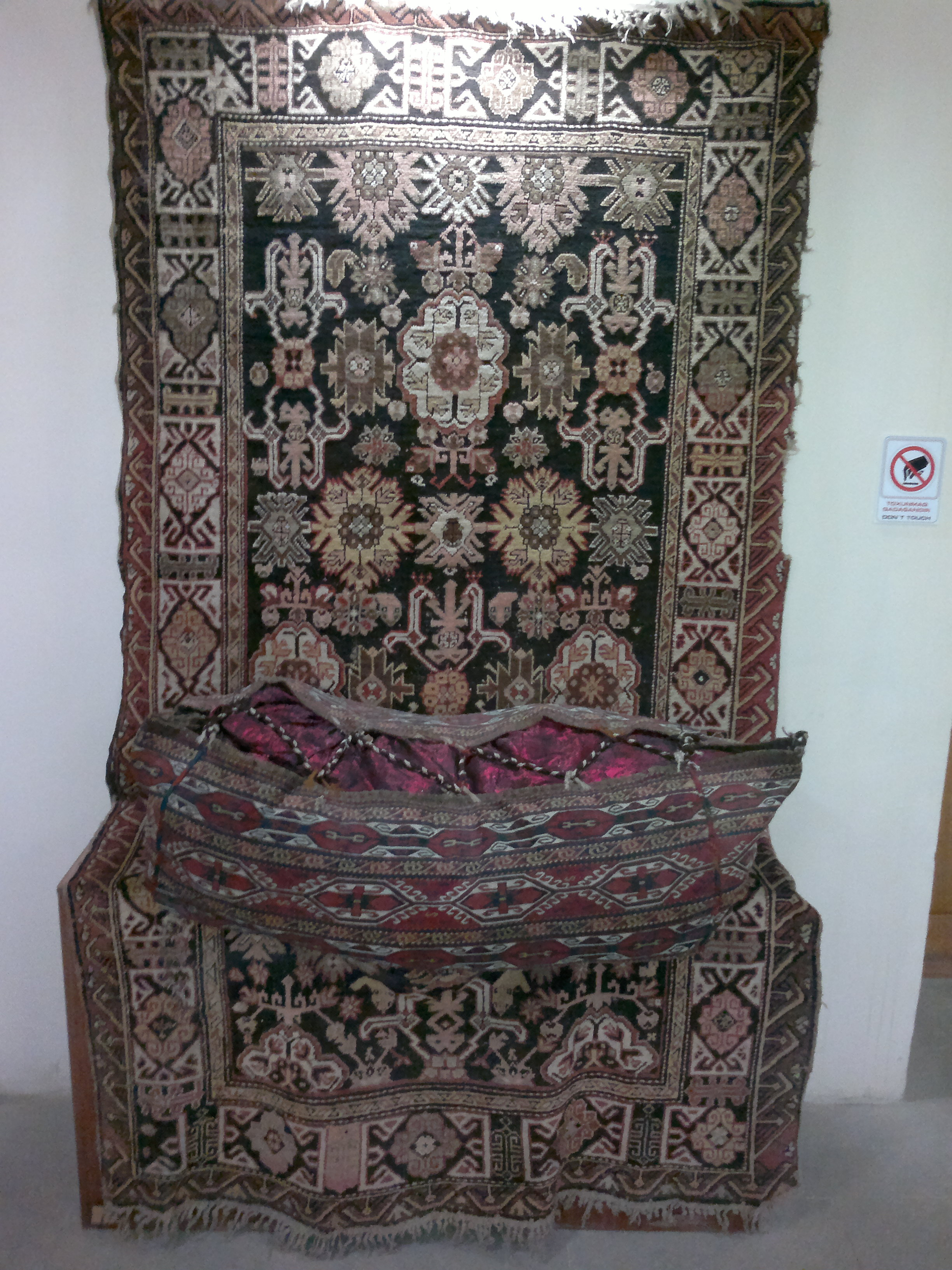 Carpet "Khila-Afshan" of the 17th century from Baku region in the Palace of Shirvanshahs. Baku, Azerbaijan.